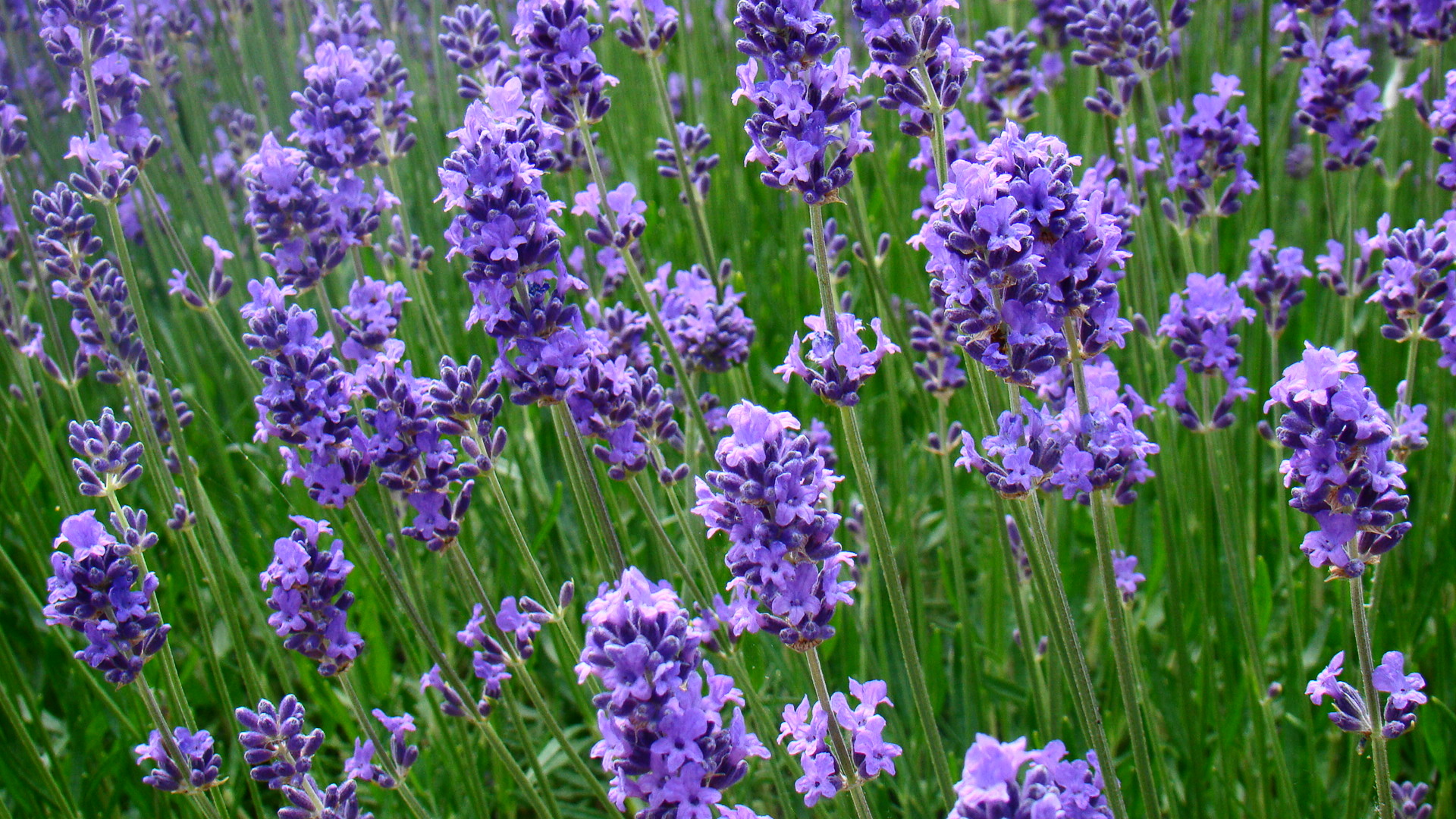 Flowering lavender buds